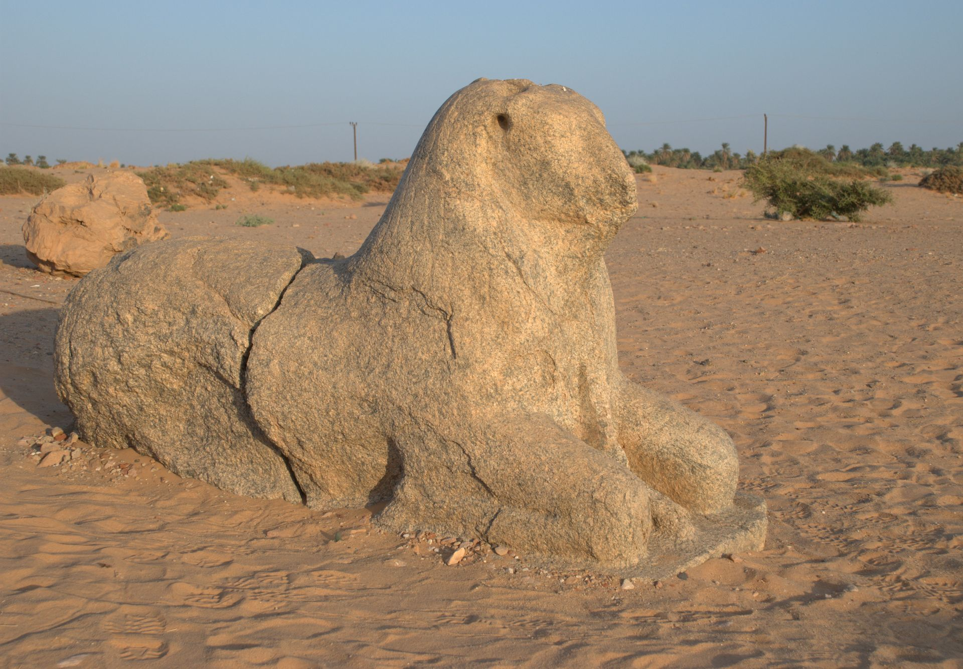 Ram in front of Amun Tempel, Jebel Barkal, Sudan